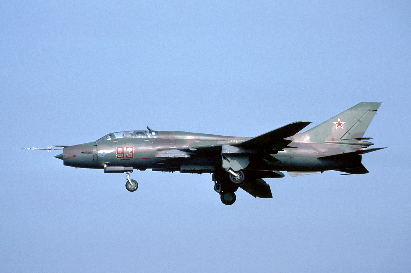 Neuruppin is a town 50 km north-west of Berlin. The Su-17s of 730th ABIP must have caused much noise disturbance, as the base was just north of the town. I took the photo on 17 September 1990, during my first real 'red star hunt' in East Germany. The fighter bomber wing returned to Russia in May 1991, but (many of) the aircraft were transferred to Gross Dölln.